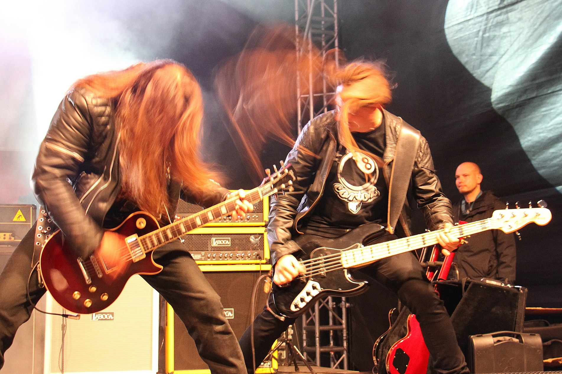 Złe Psy on stage (Grzegorz Babisz & Paweł Nafus)